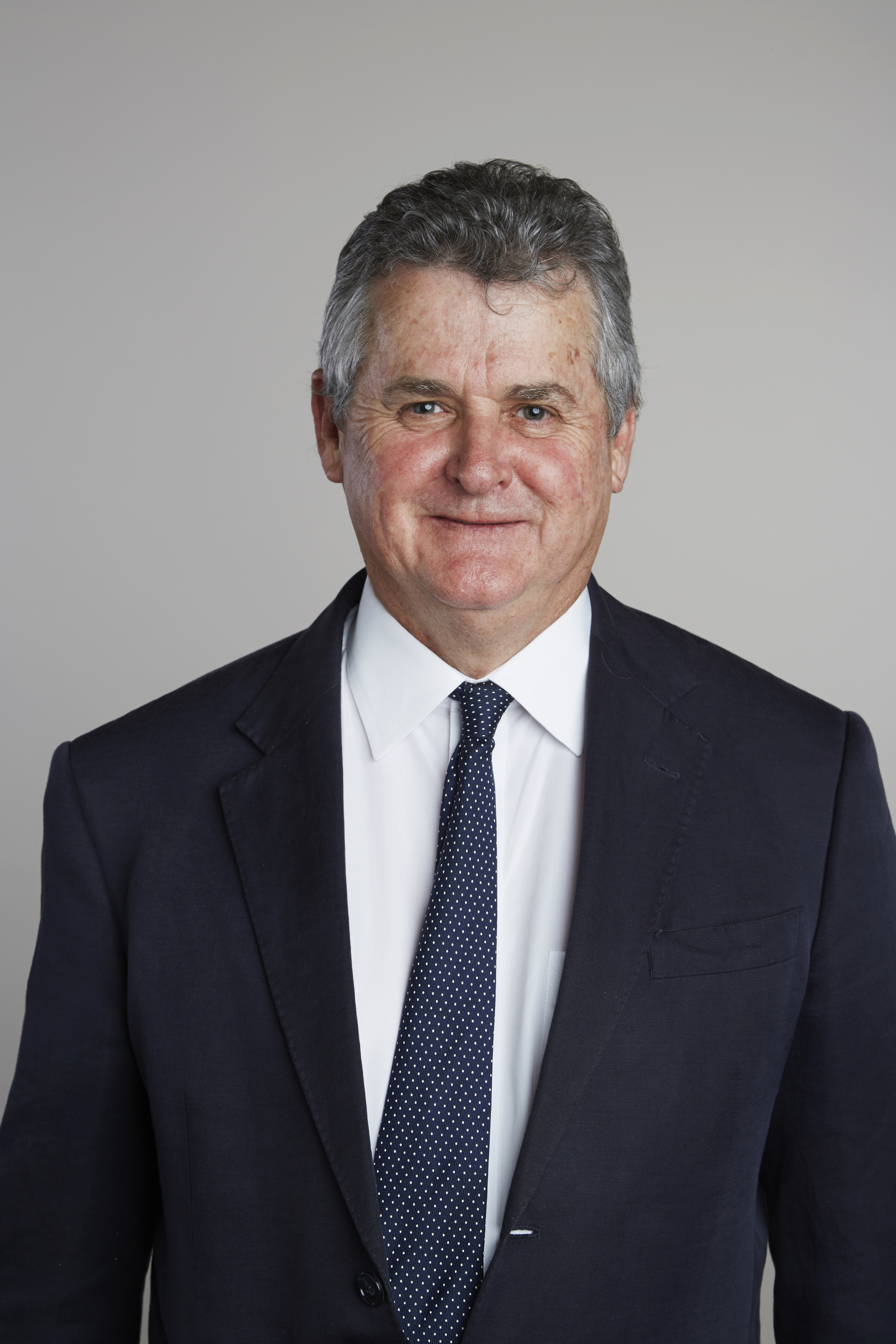 Scott Sloan obtained BE (1976) and MEngSci (1978) Degrees in Civil Engineering at Monash University before completing MPhil and PhD (1982) degrees in the same field at the University of Cambridge. He was then a Rouse Ball Fellow at Trinity College Cambridge for a year before moving to New College Oxford where he was the W W Spooner Junior Research Fellow. In 1984 he accepted a Lectureship in Civil Engineering at the University of Newcastle Australia. He is currently the founding Director of the 180-strong ARC Centre of Excellence in Geotechnical Science and Engineering as well as the 70-strong Priority Research Centre in Geotechnical and Materials Modelling at Newcastle. These Centres are focused on the geotechnical aspects of energy and transport infrastructure, and combine advanced computational modelling, field measurements, laboratory testing, and physical modelling to develop more cost-effective design procedures for the engineering profession. Scott was elected a fellow of the Australian Academy of Science in 2007 and the Australian Academy of Technological Sciences and Engineering in 2000. Attribution: The Royal Society